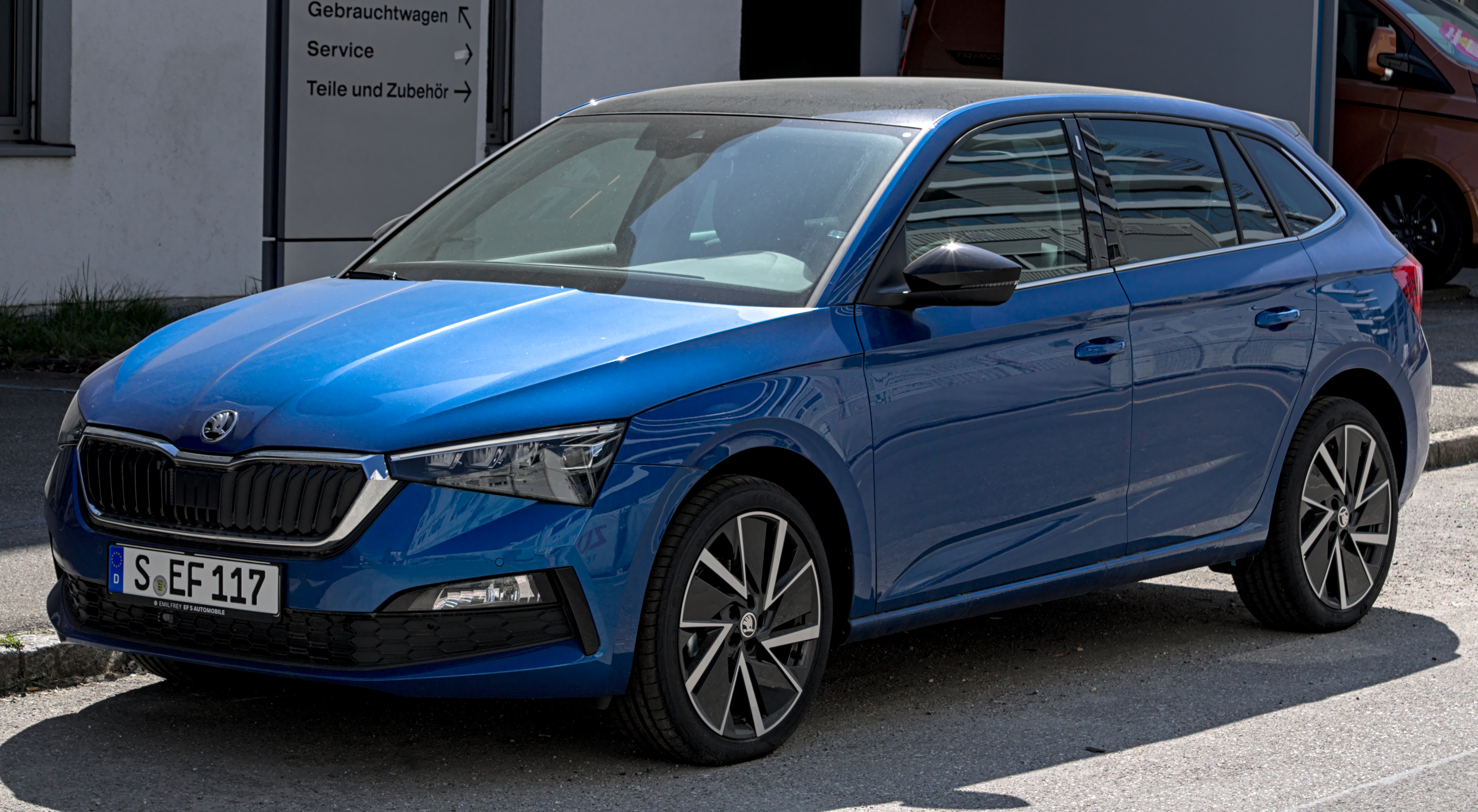 Skoda_Scala in Stuttgart-Vaihingen